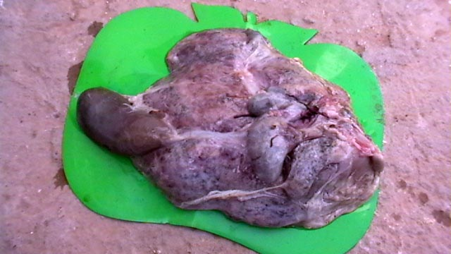 Infectious necrotic hepatitis in a ewe Walon: Foetite grangreneuse d' ene berbis